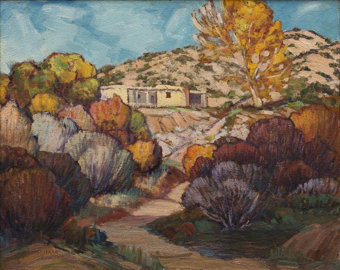 Cerro Gorgo, Santa Fe by Carlos Vierra, oil on canvas board, c. 1920